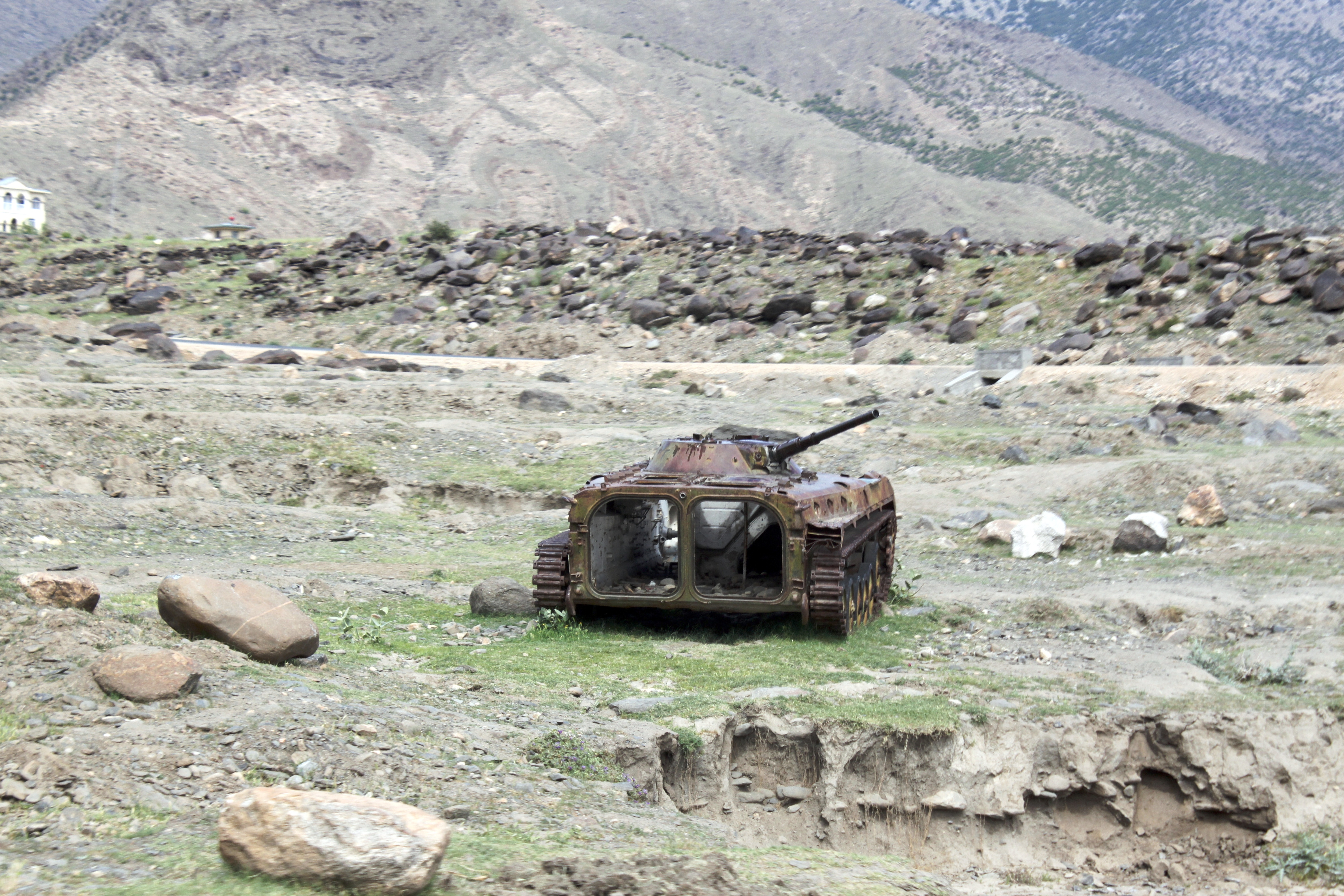 Original caption: The Soviets left behind some junk the last time they were through here. Legend has it the locals ambushed them with farm implements. There are more than a few signs of battle, decades since it happened. Photos from our trip to Dari Noor